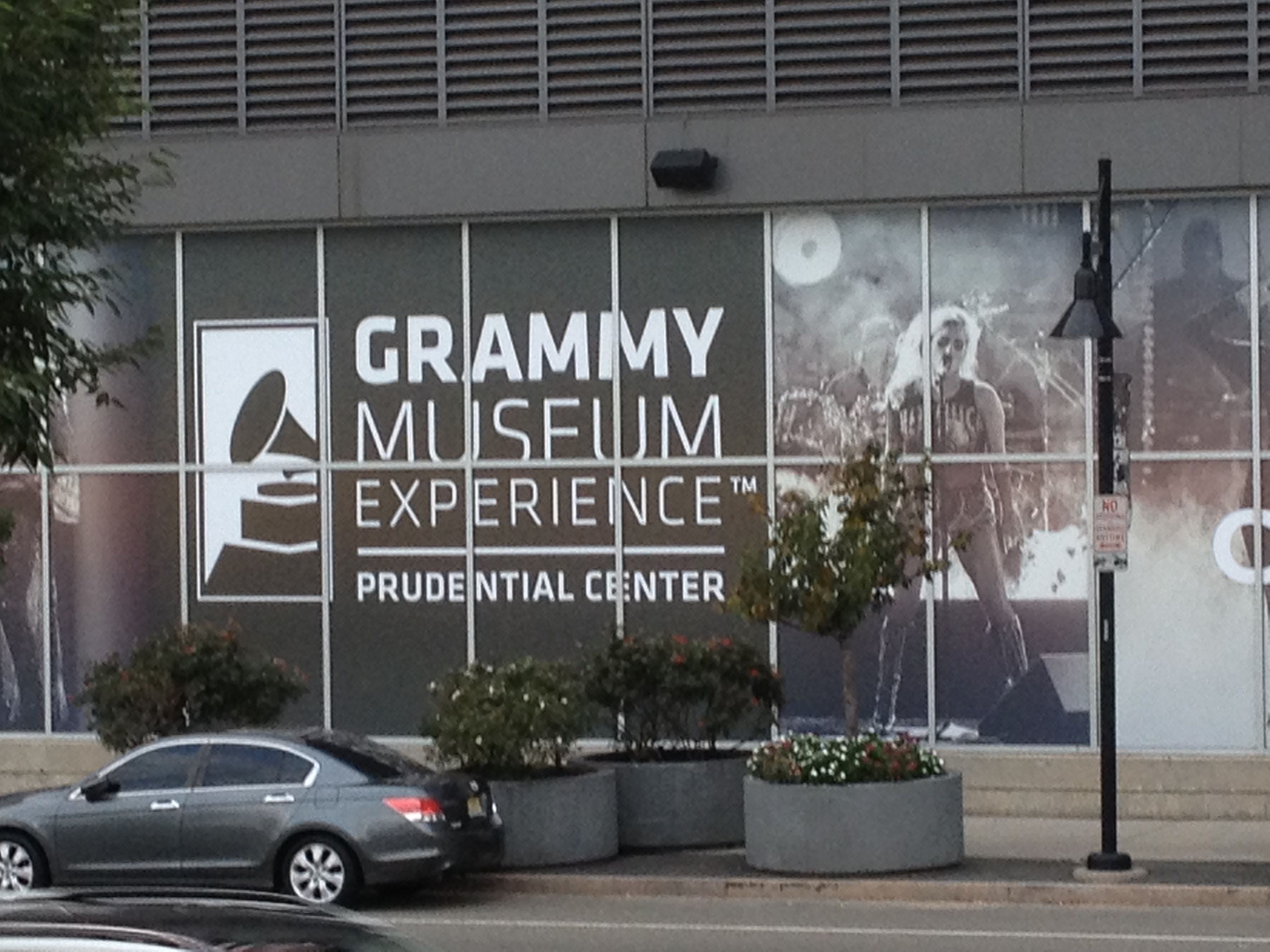 Grammy Museum Experience Prudential Center Newark Mulberrry Commons view